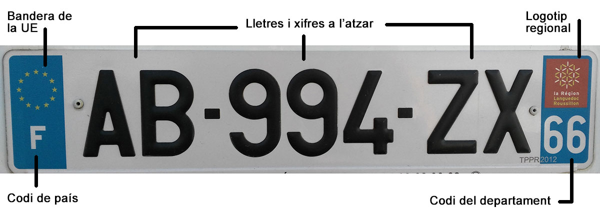 French license plate